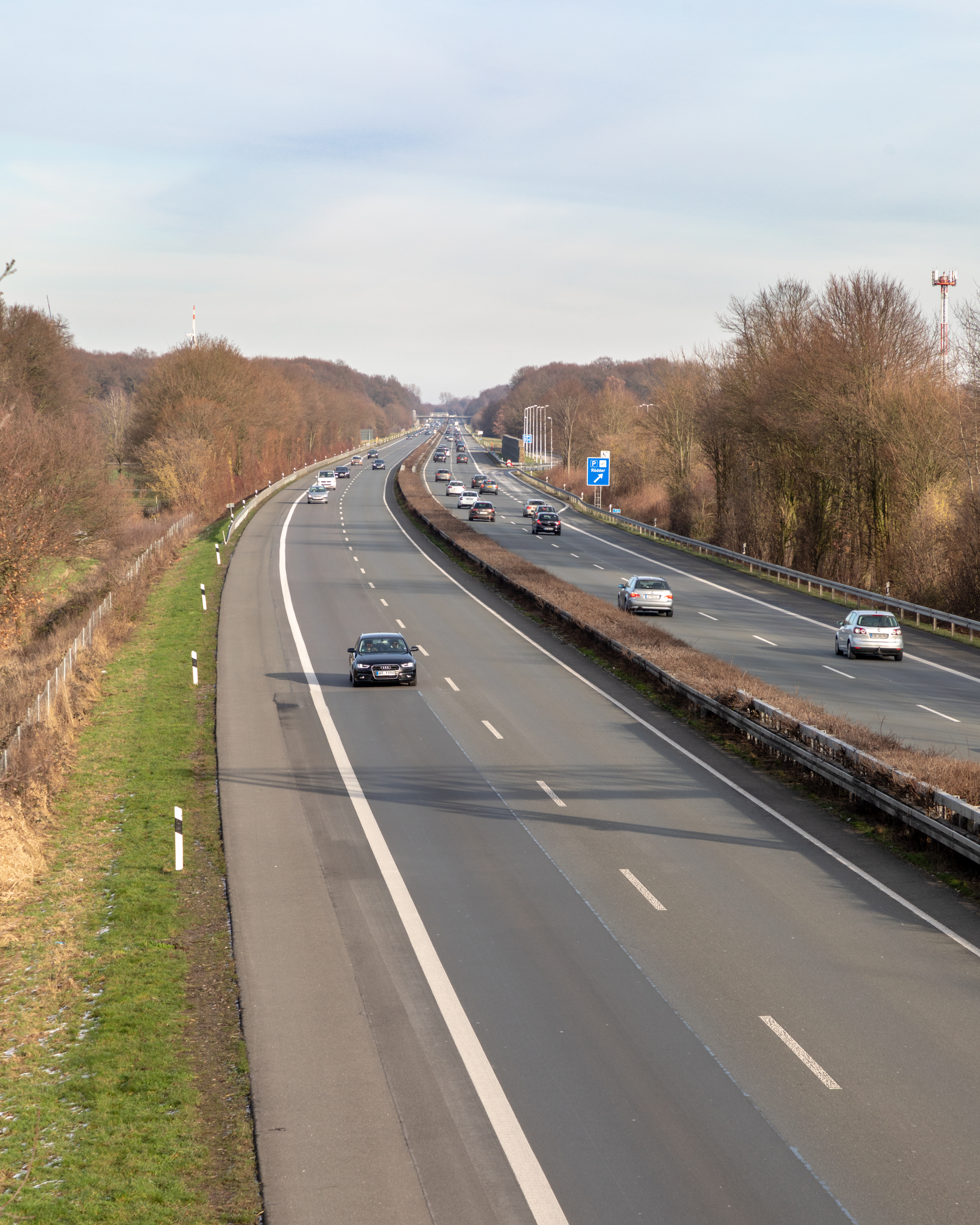 Former military airfield at Bundesautobahn 43 near Dülmen, North Rhine-Westphalia, Germany